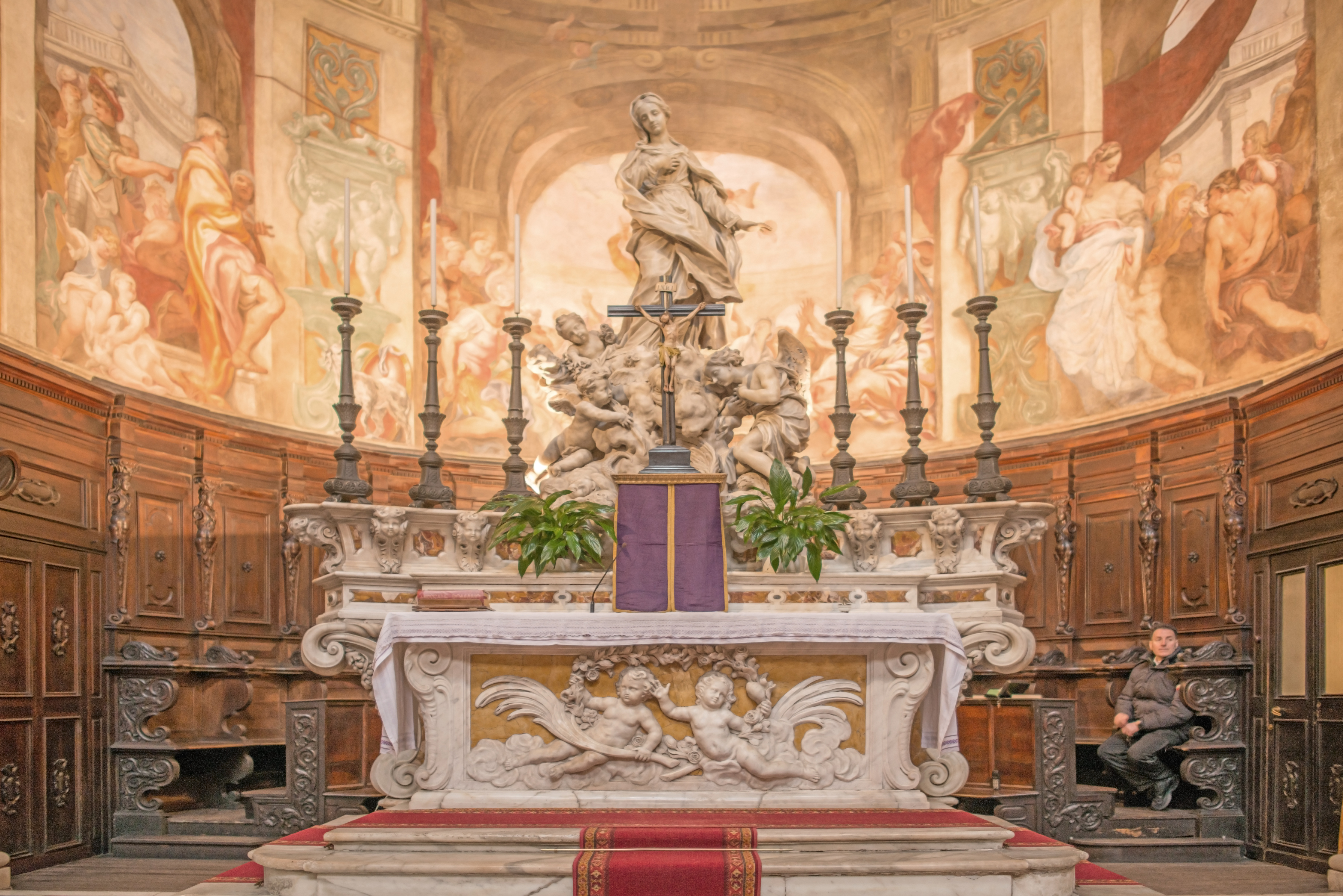 Genoa, Italy, Church of St. Luke, the altar with the statue of the Immaculate (Filippo Parodi)